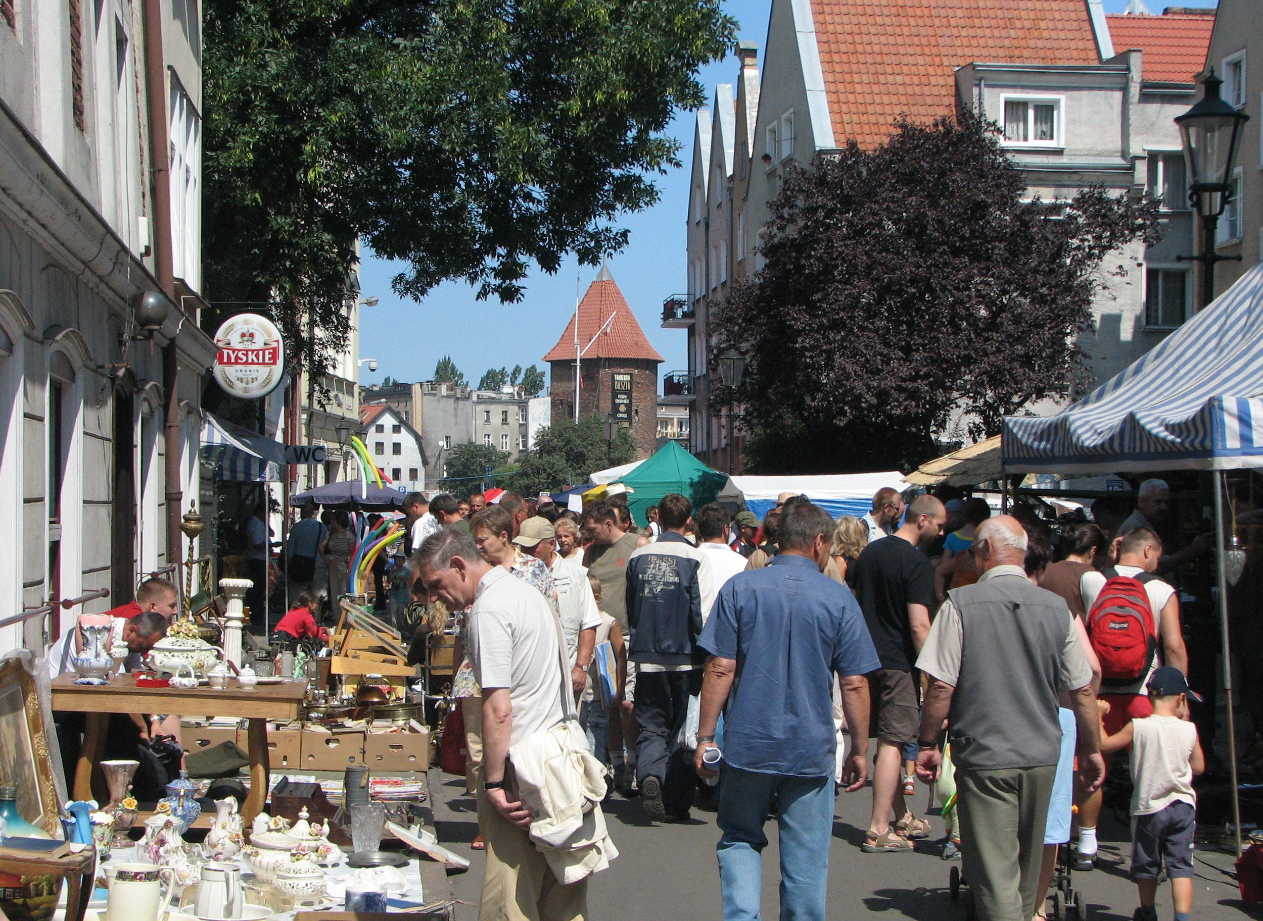 St. Domic's funfair in Gdansk, Poland in 2006.